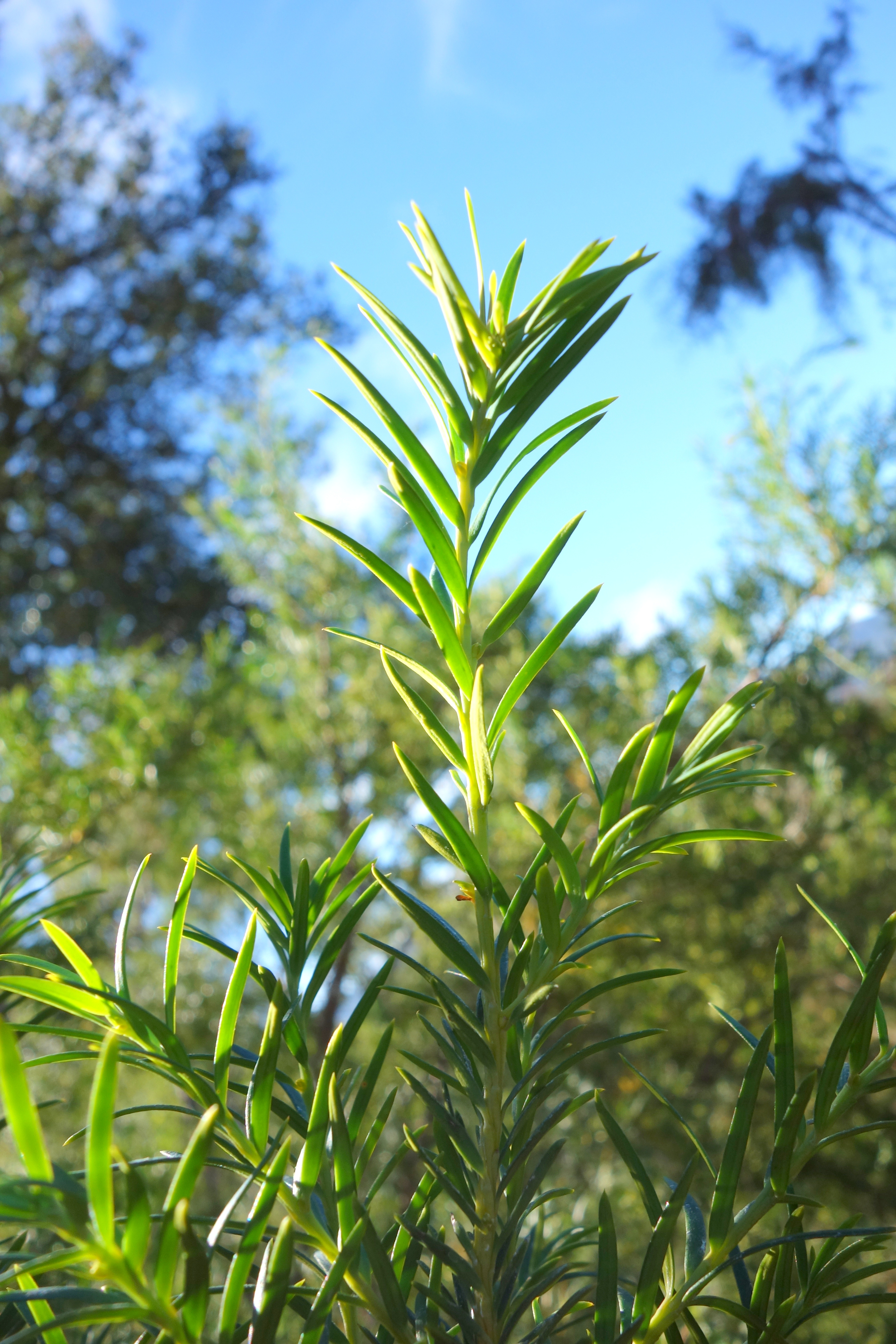 Botanical specimen in Quarryhill Botanical Garden, Glen Ellen, California, USA.